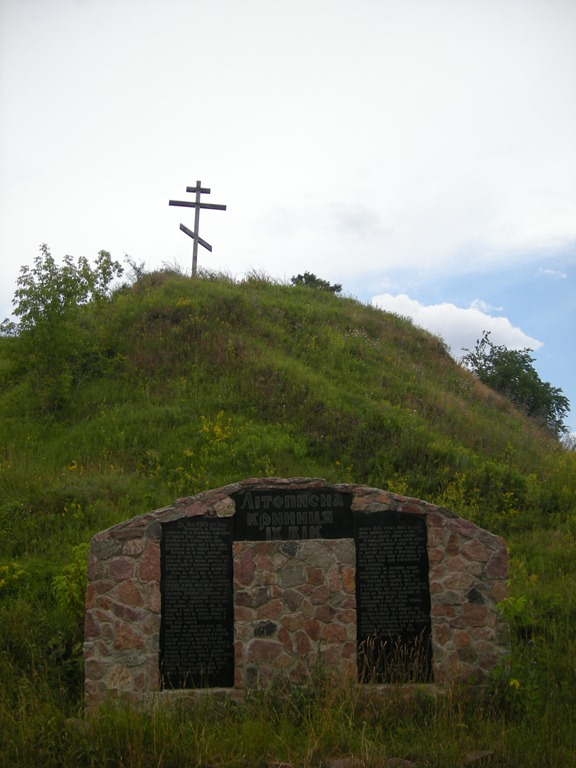 Літописний Білгород